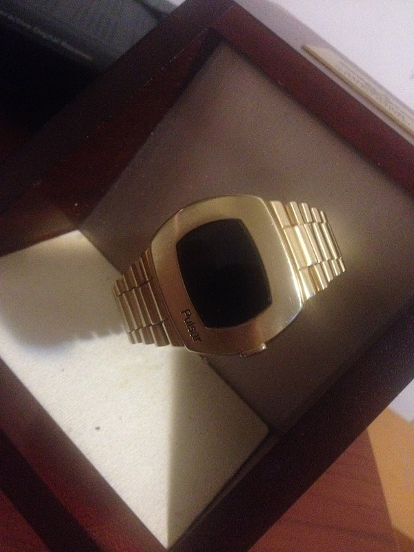 Elvis Presley golden led watch Pulsar P2 serial:10288